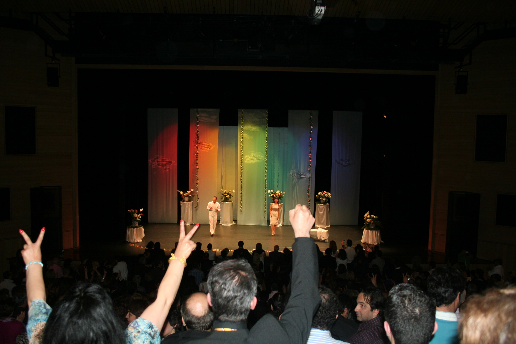 Schiedam, The Netherlands: After Hooshang Tozie and Shohreh Aghdashloo theater play, people were chanting "death with dictator". Photo by Pejman Akbarzadeh